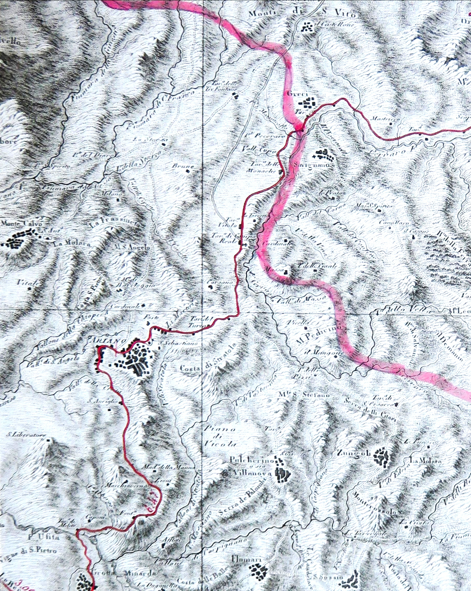 Map of Ariano, 1808